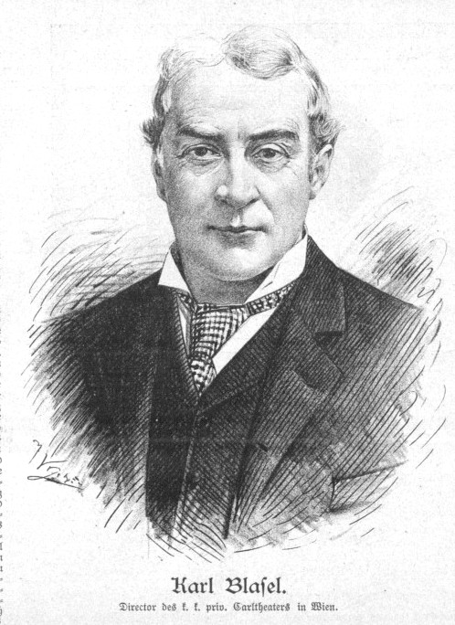 Portrait of Karl Blasel (1831-1922), Austrian actor.